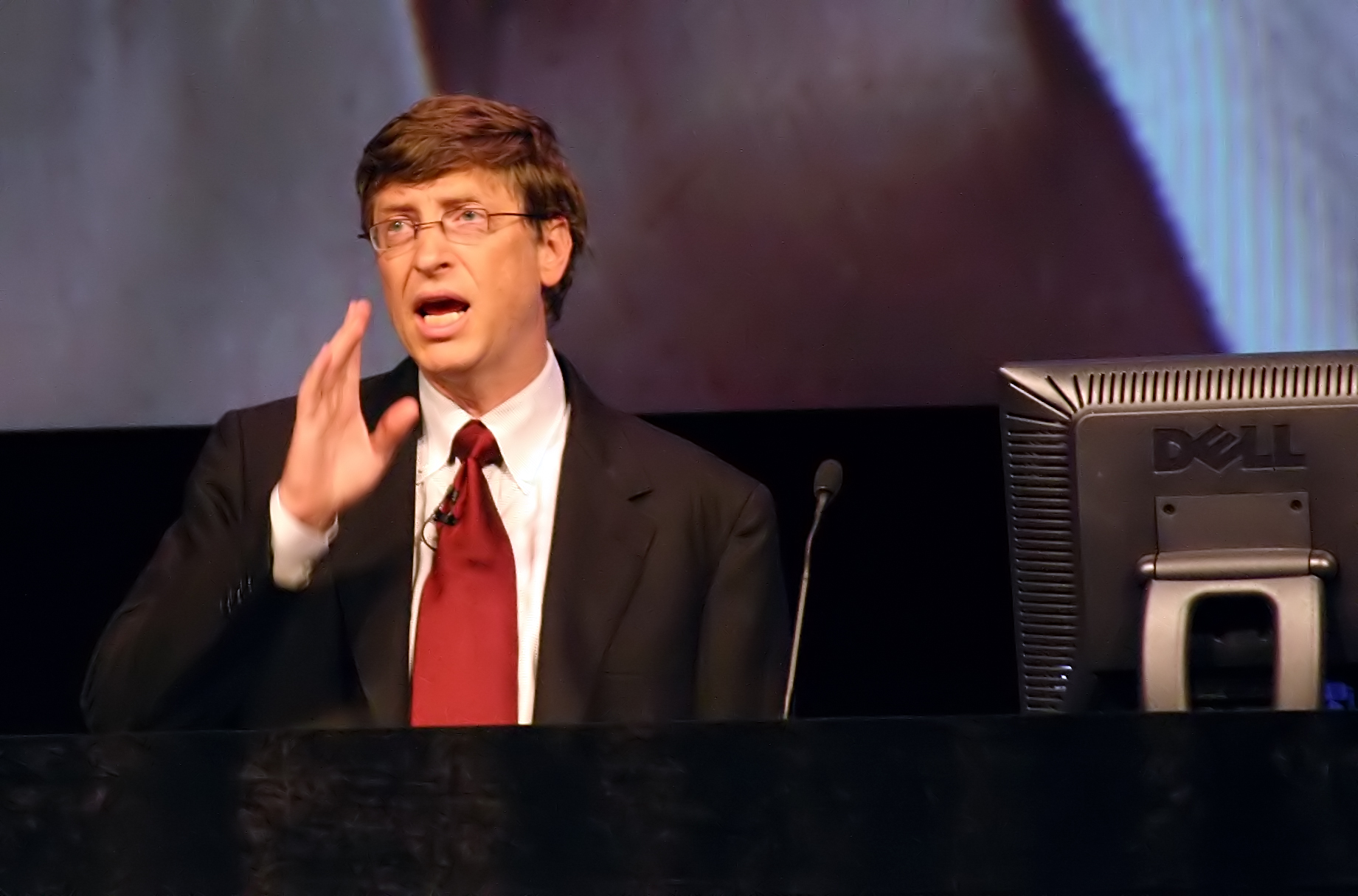 Bill Gates delivering key note at IT Forum 2004 in Copenhagen